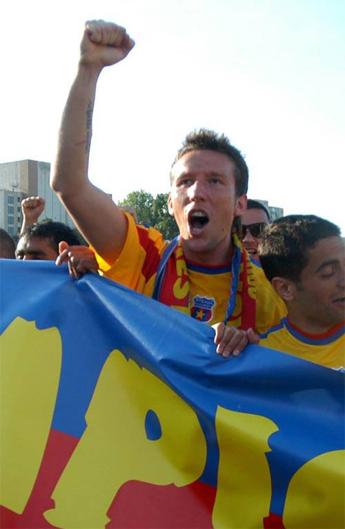 Victoras Iacob after winning Divizia A 2005-2006.